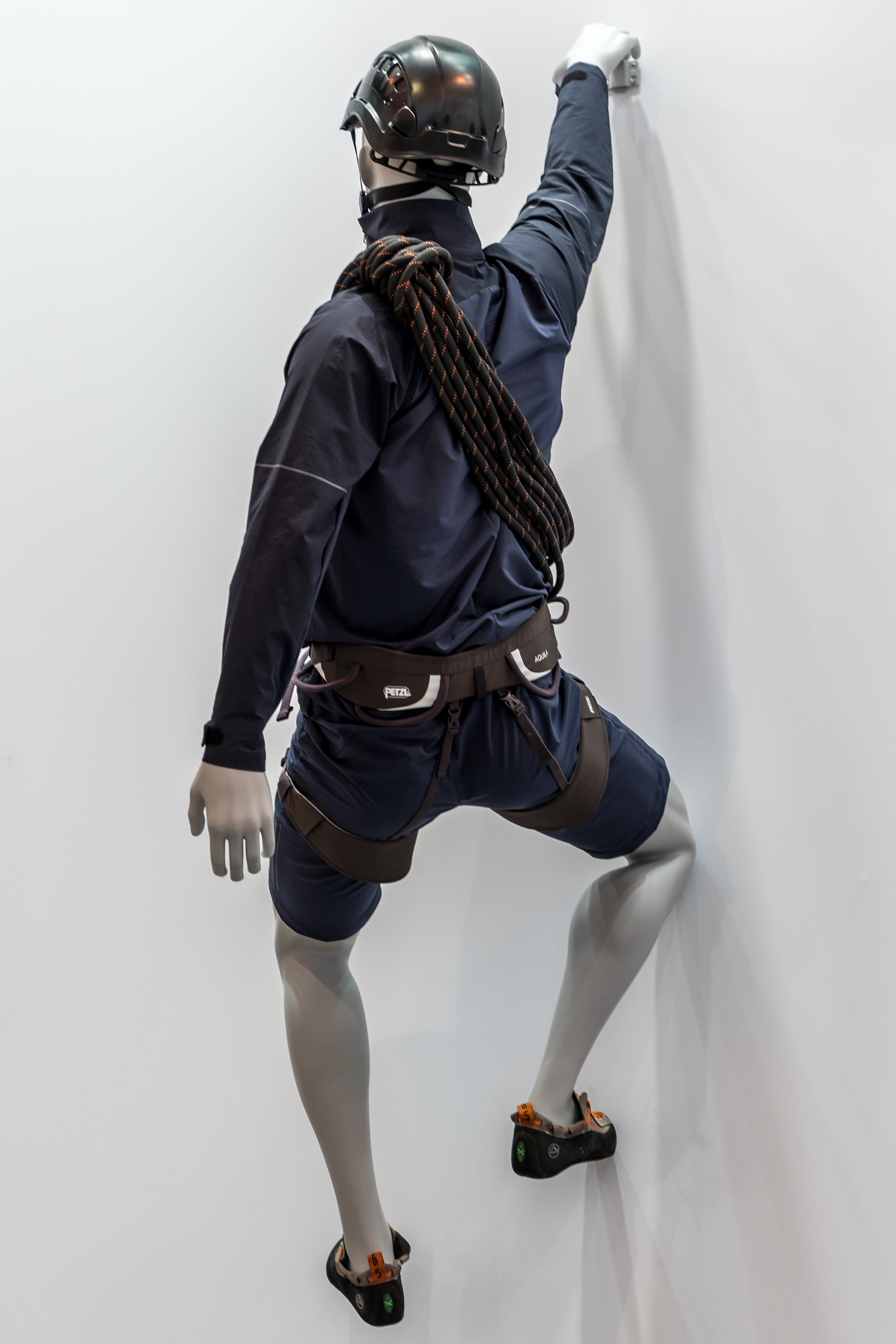 OutDoor 2018